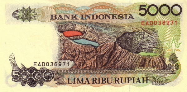 Indonesian currency issued 1976-2000.